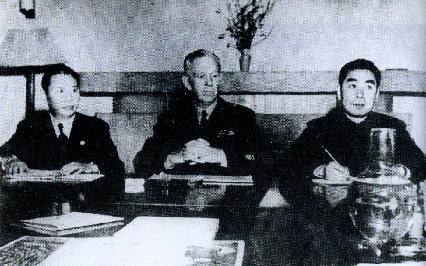 Three people group for peace in 1946 China